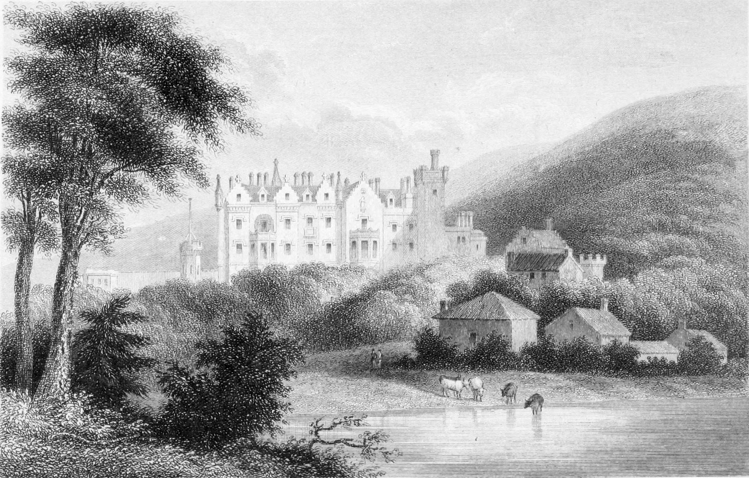 Frontispiece of book by Lydia Sigourney. Pastoral engraving of a castle at Abbotsford.